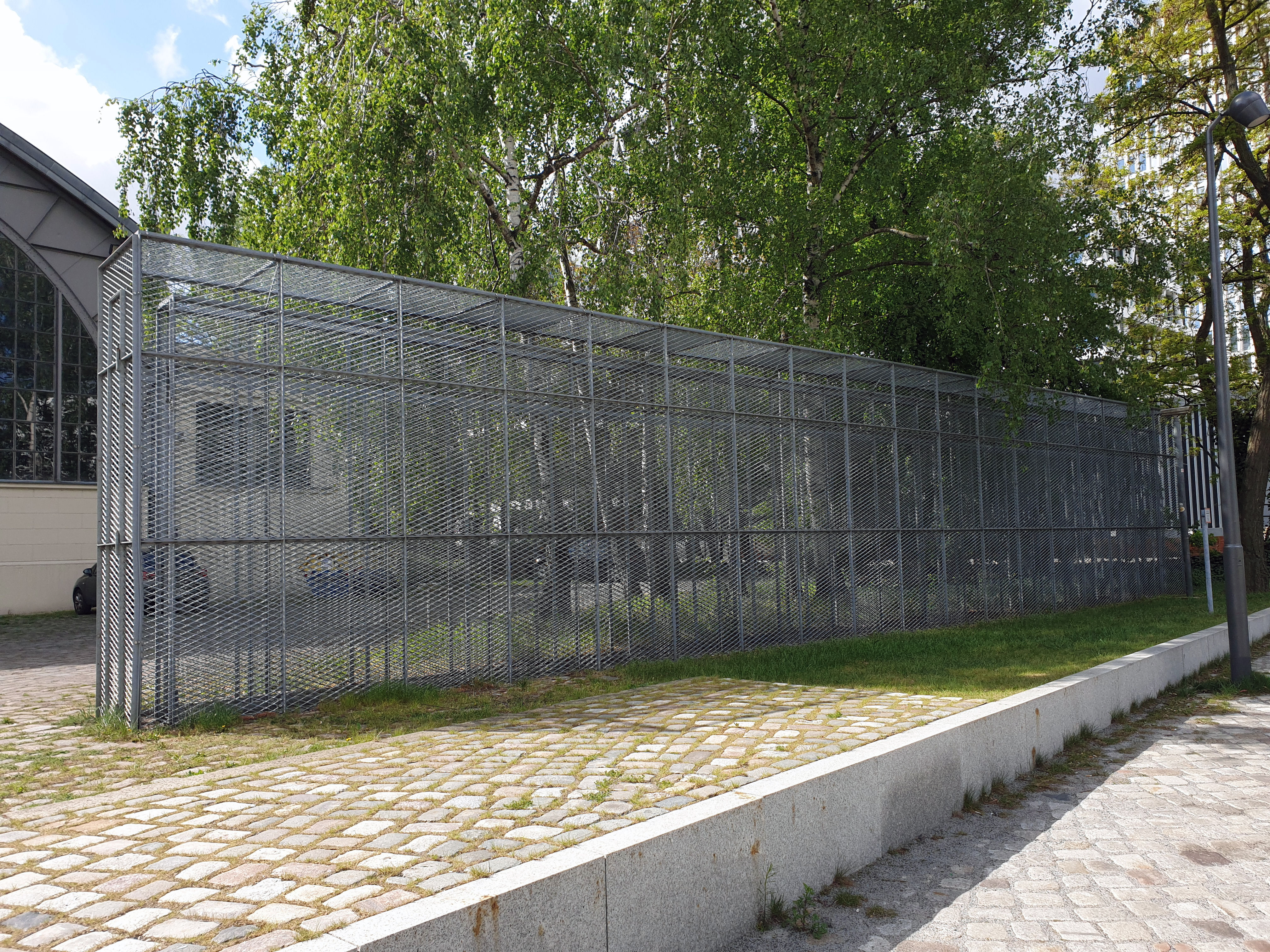 Sculpture, "'Double Cage Piece" by Bruce Nauman, 1974, Invalidenstraße 50, Berlin-Mitte, Germany